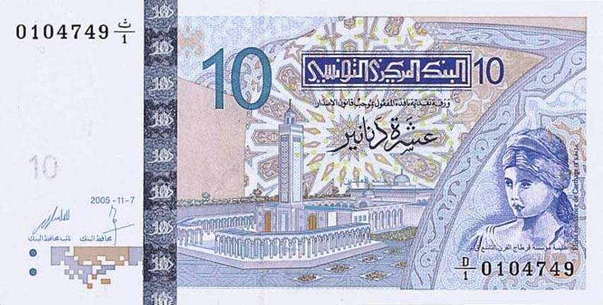 New 10 TND banknote issued in 07.11.2005, with the portrait of Elissa (Dido)